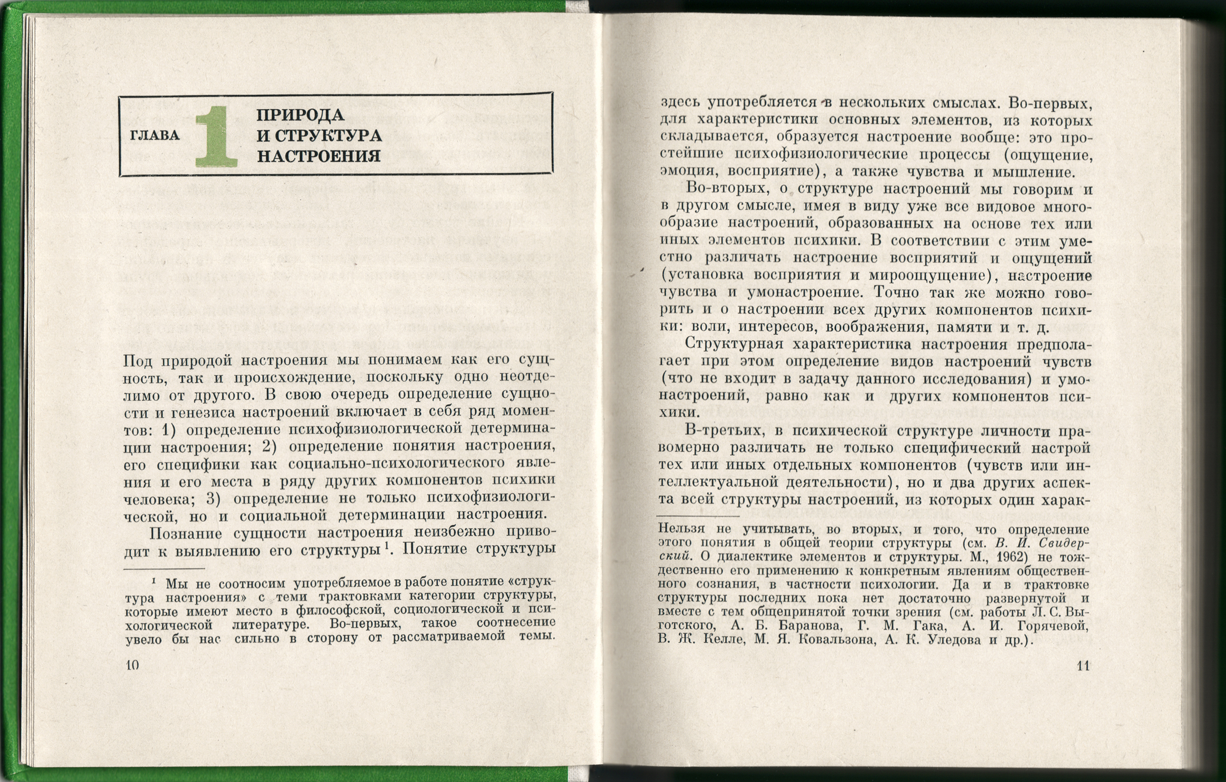 Boris Parygin. Public Mood. Moscow. Book spread